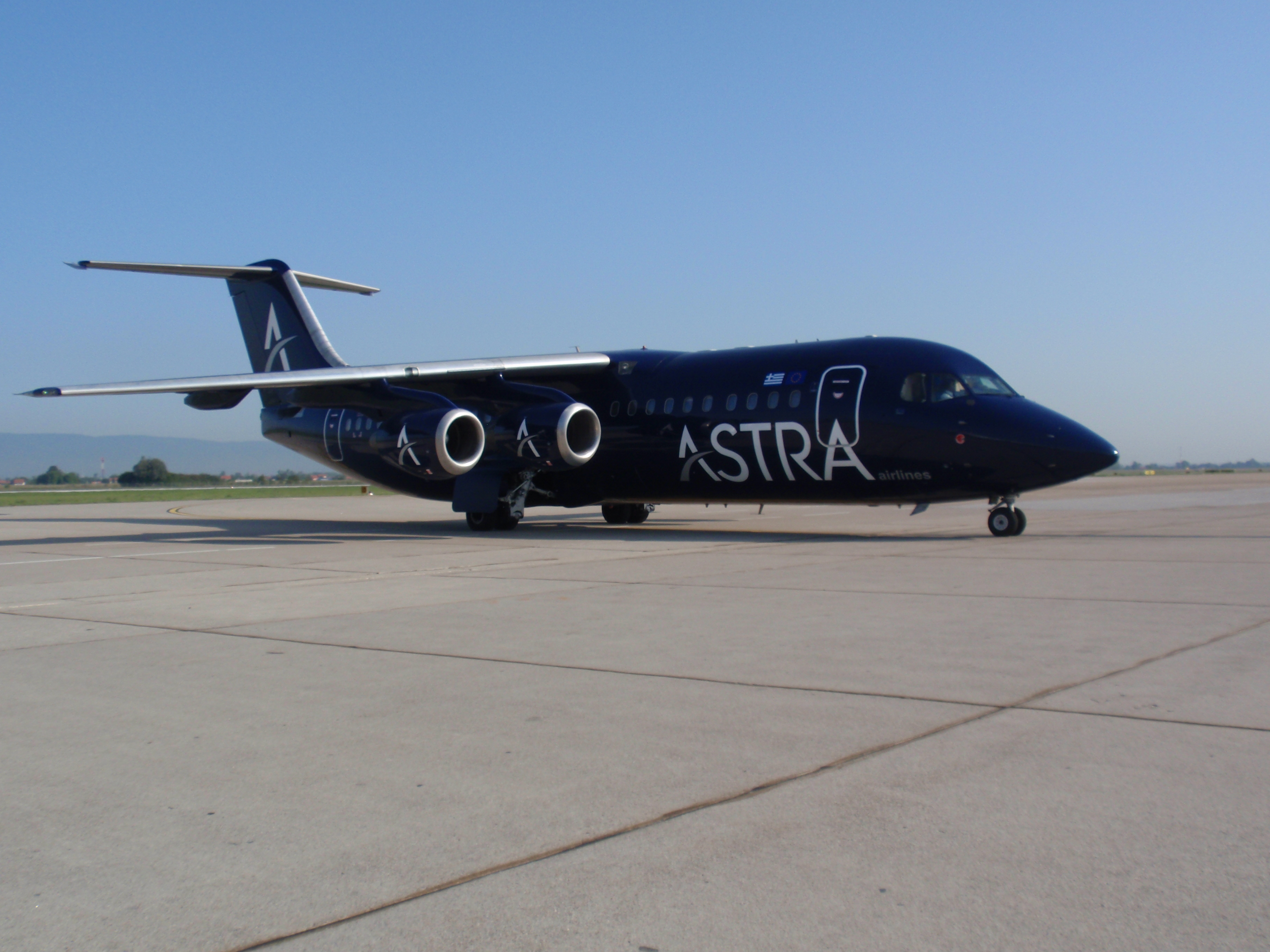 Astra airlines, BAe 146-300 on Airport Zagreb.